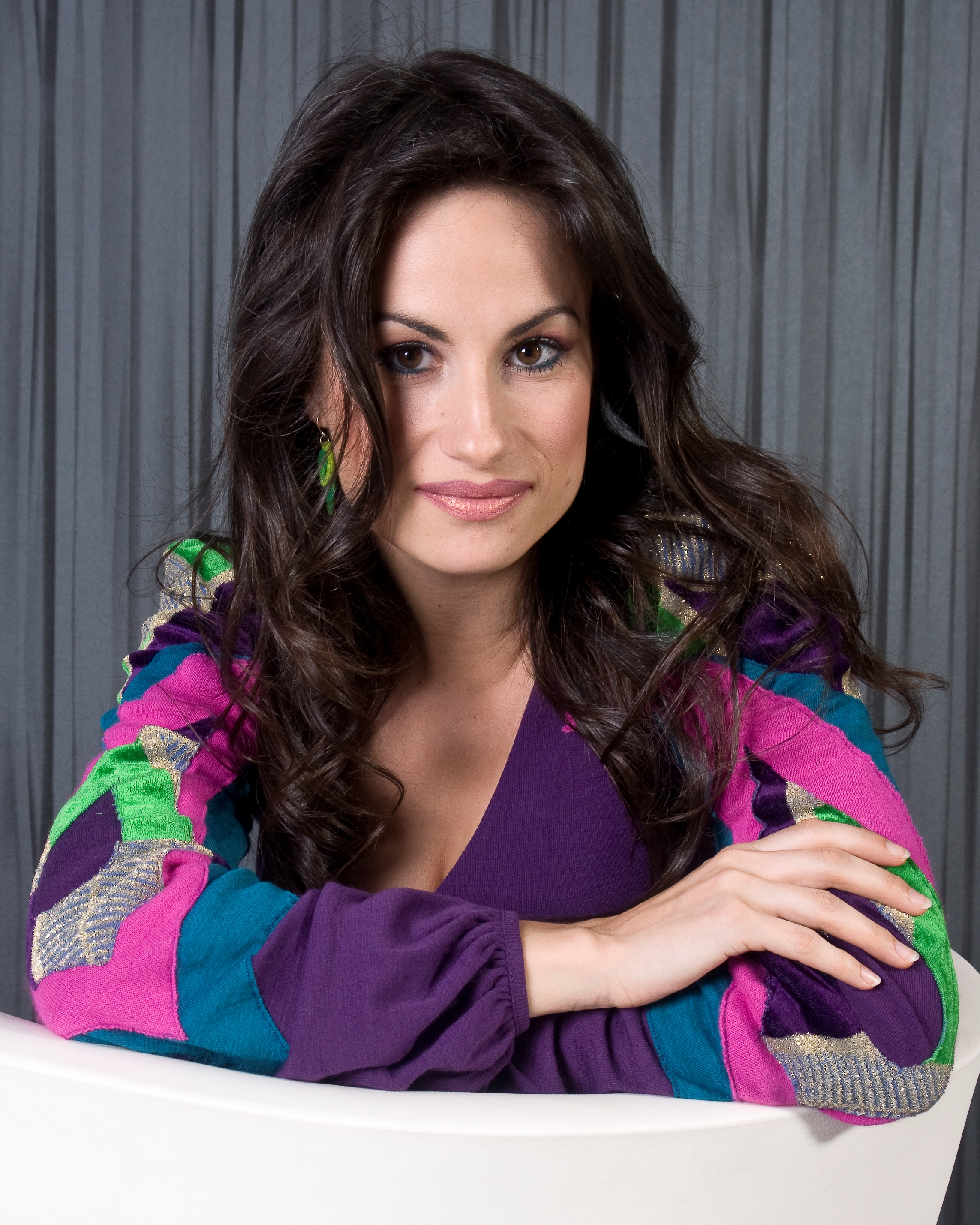 Photograph of Yolanda Castaño